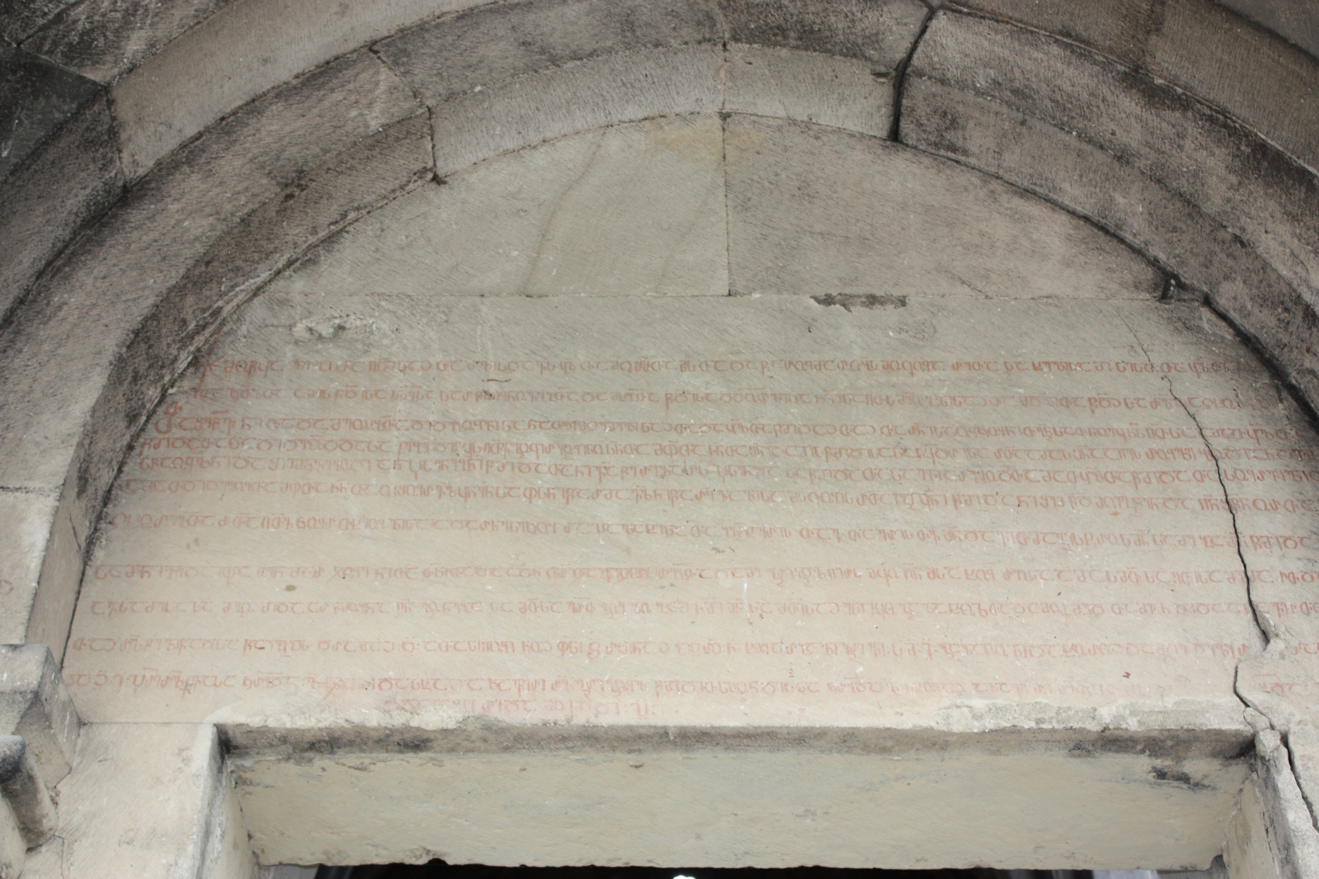 Georgian inscriptions in Georgian monastery Oshki, Tao-Klarjeti, modern Turkey